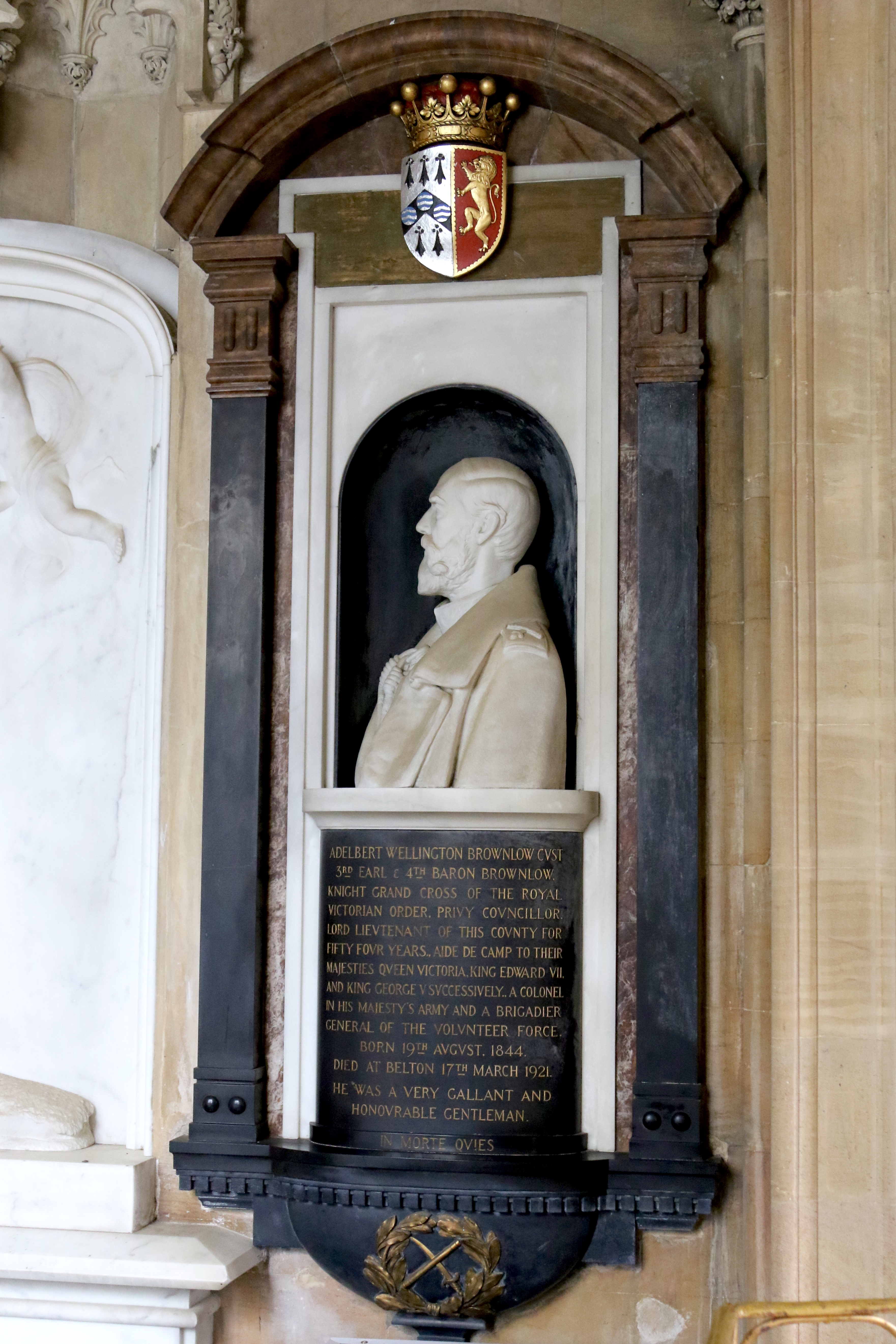 Adelbert Wellington Brownlow Cust, 3rd Earl and 4th Baron Brownlow, Knight Grand Cross of the Royal Victorian Order, Privy Councillor, Lord Lieutenant of this County for Fifty Four Years. Aide de Camp to their Majesties Queen Victoria, King Edward VII and King George V successively. A Colonel in his Majesty's Army, and a Brigadier General of the Volunteer Force. Born 19 August 1844. Died Belton 17 March 1921. Showing arms of Cust impaling Talbot for his wife Lady Adelaide Chetwynd-Talbot, daughter of Henry Chetwynd-Talbot, 18th Earl of Shrewsbury.